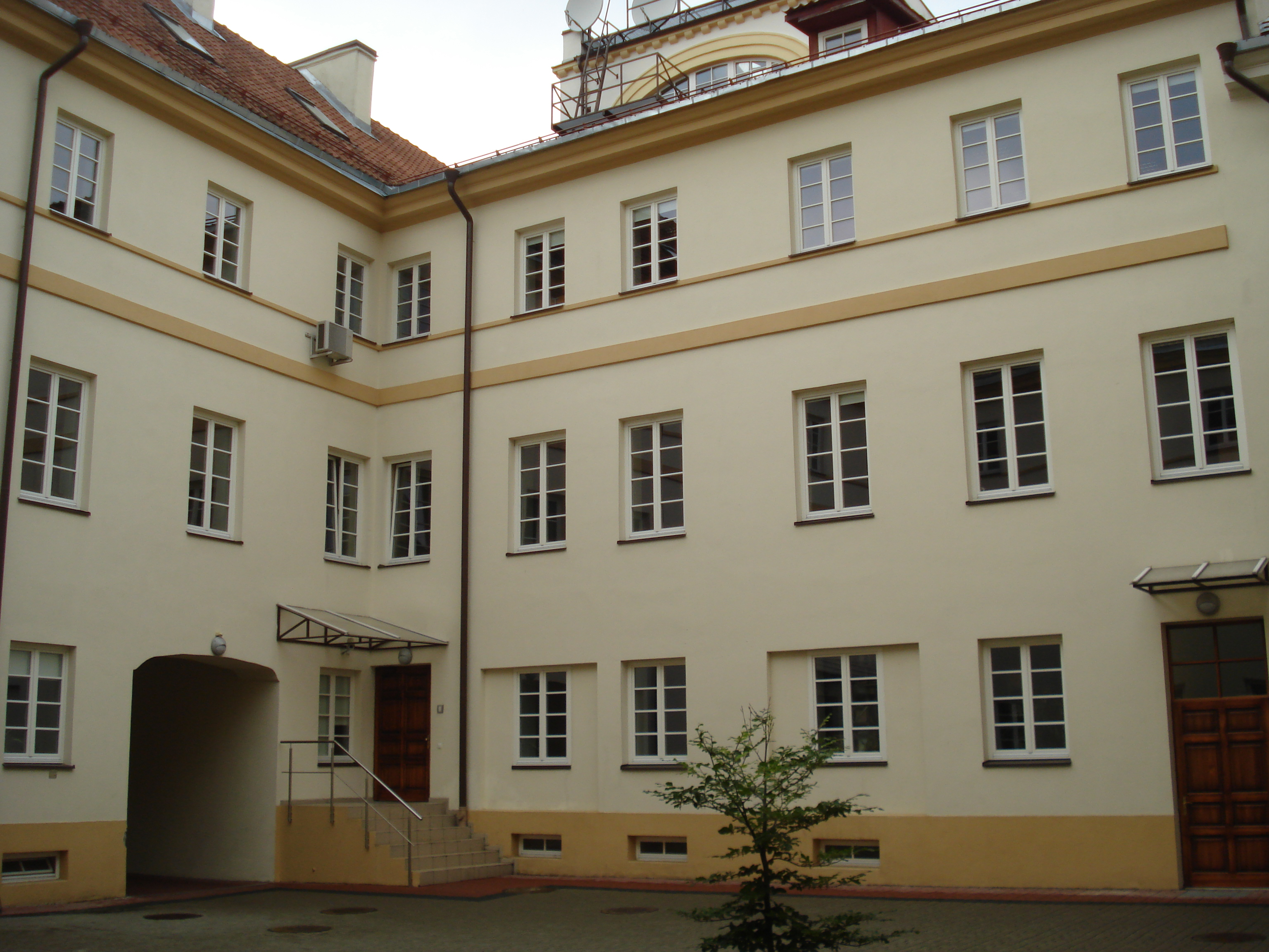 Vilnius University. Bursa yard (Philosophy faculty)